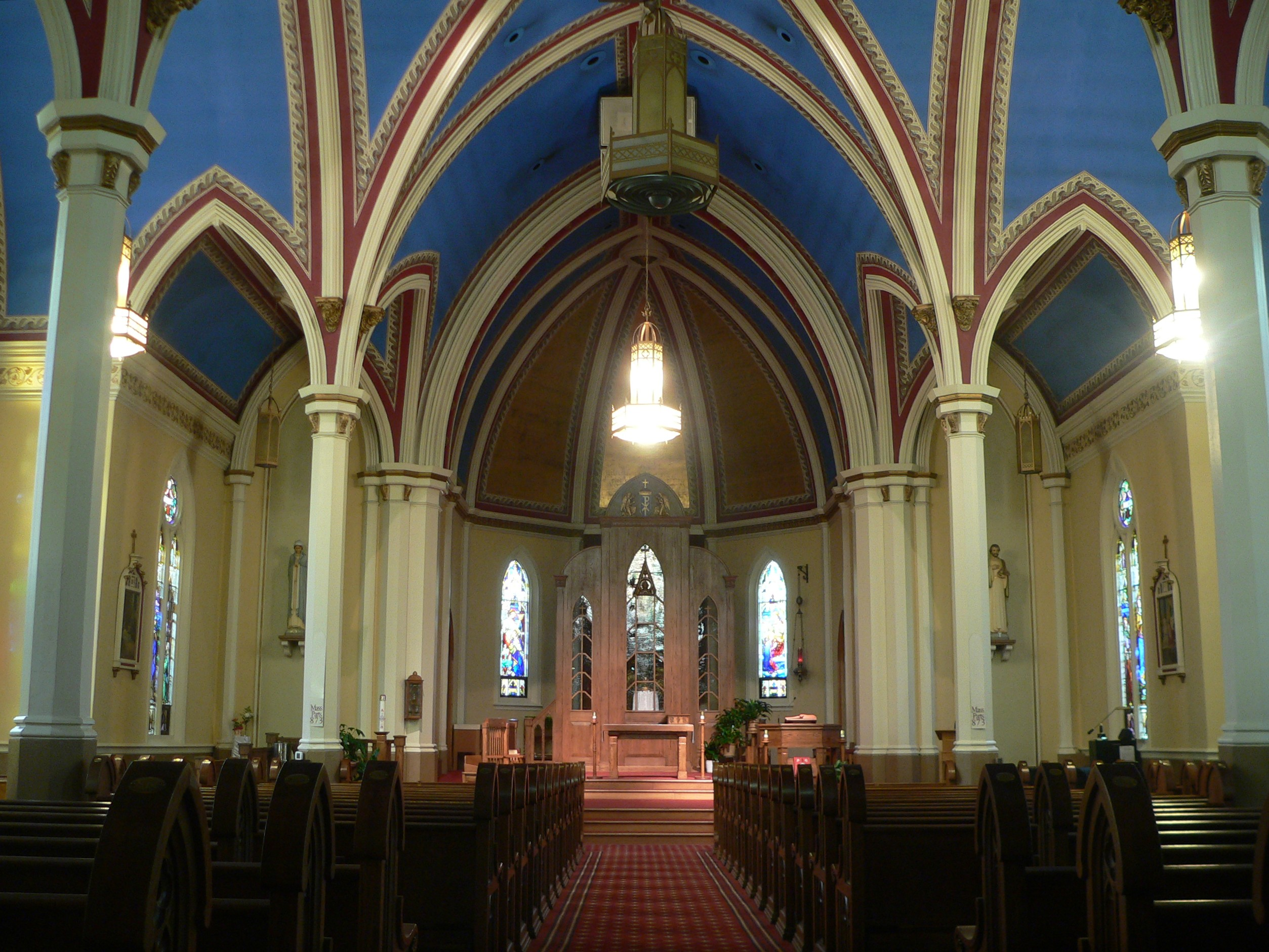 Interior of St. James Basilica, at 622 1st Avenue S. in Jamestown, North Dakota. Camera is facing west.